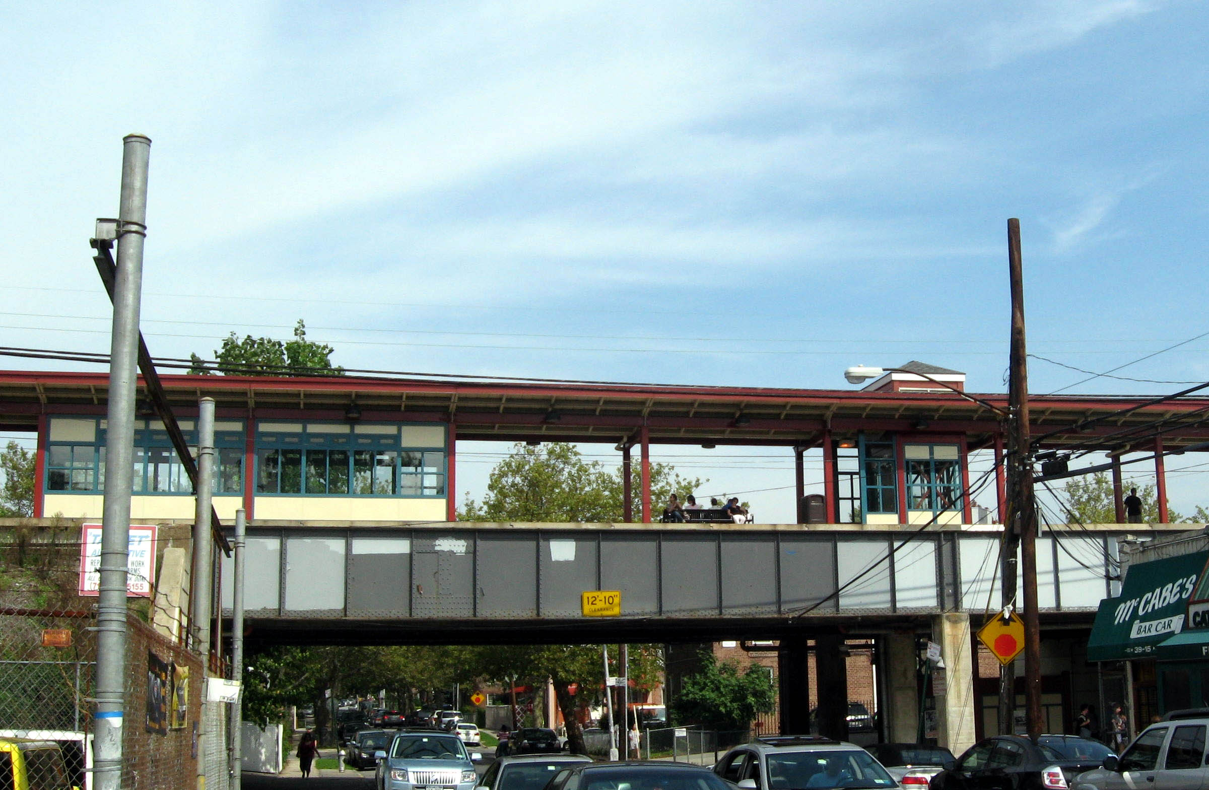 Looking north at Auburndale (LIRR station) on a mostly sunny late morning